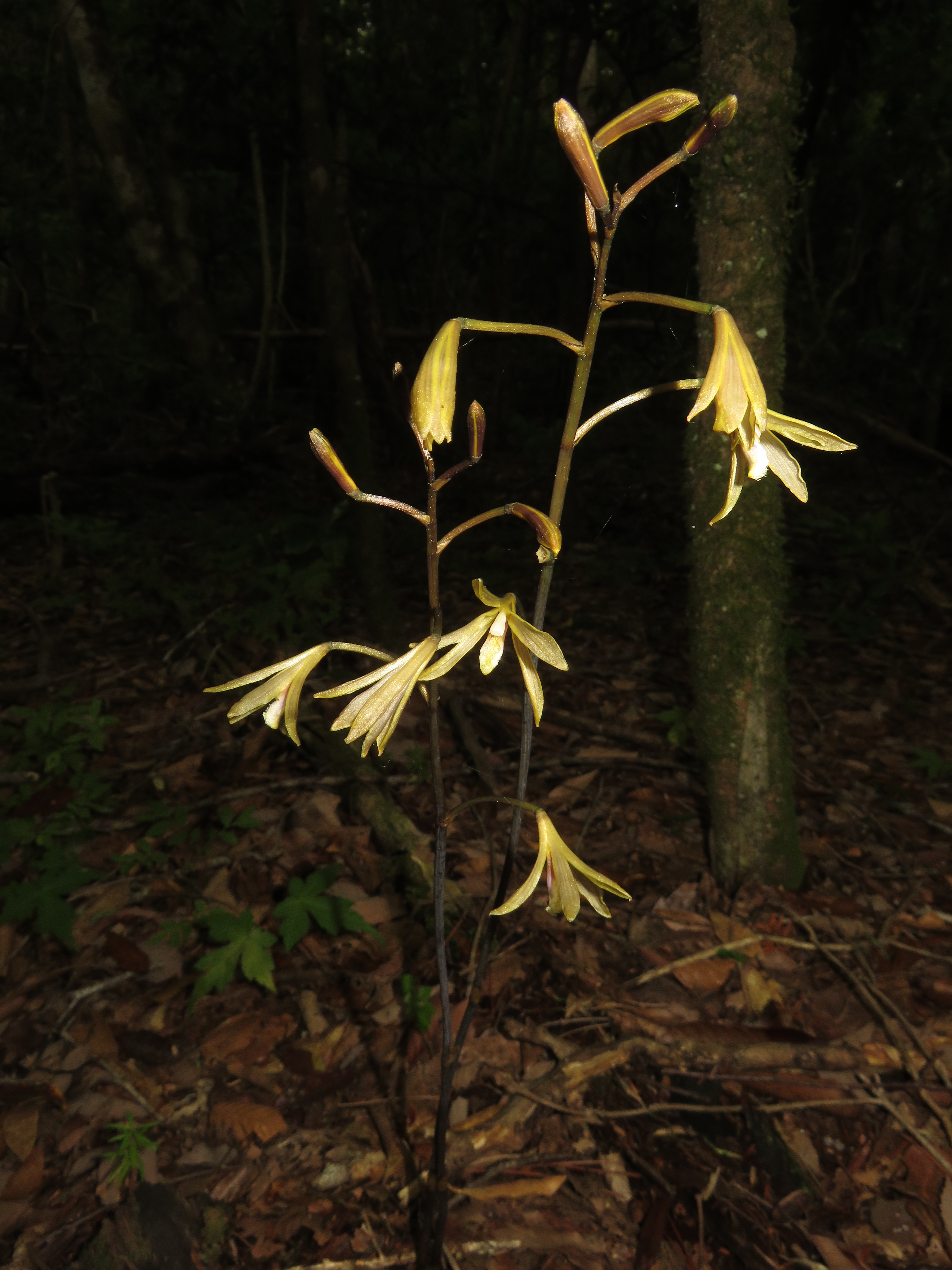 Lecanorchis japonica, Hama-dori area, Fukushima pref., Japan